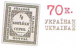 Stamp of Ukraine, 140th Anniversary of Verhnedneprovsk Zemstvo Post, 2006.